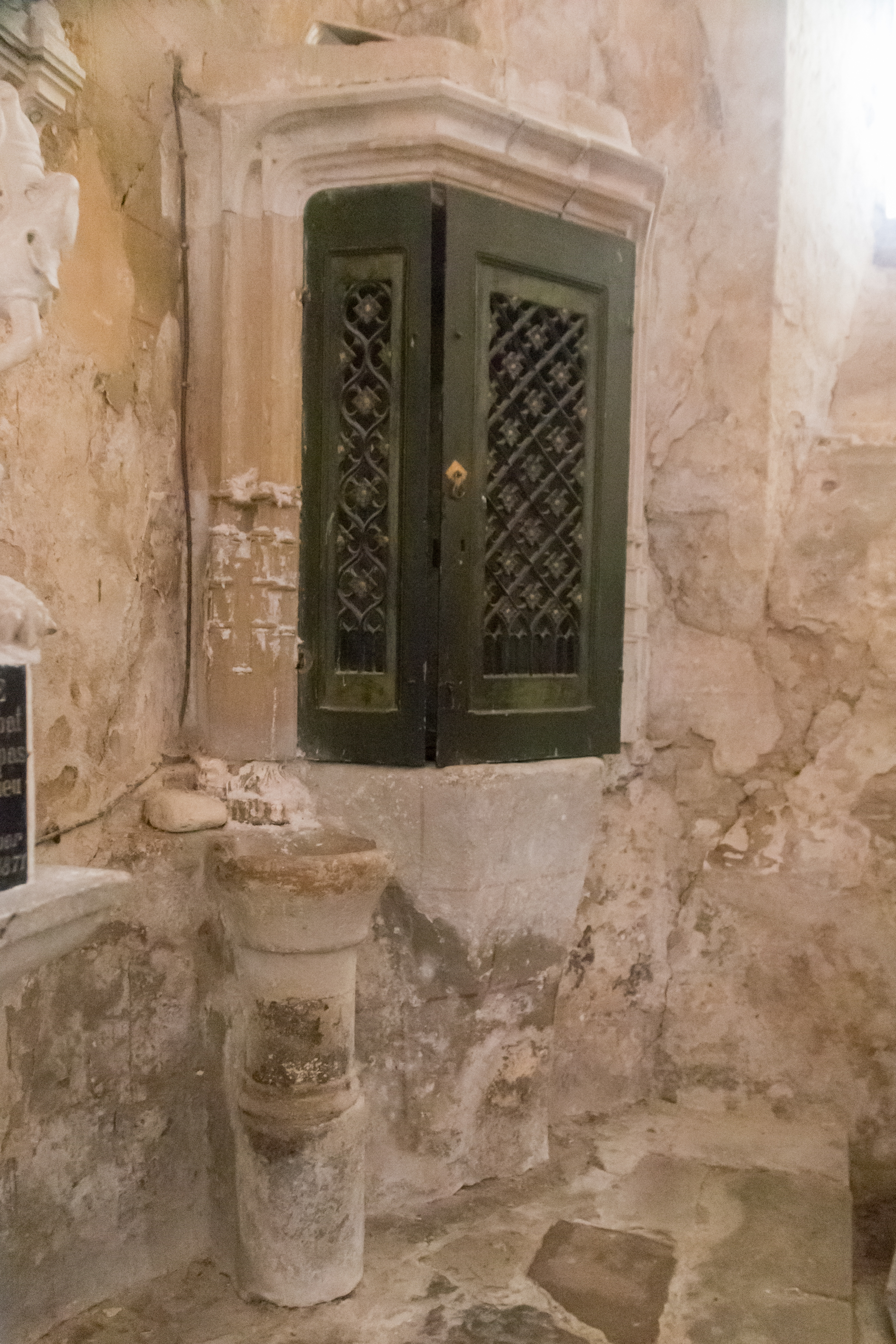 Liturgical pool of baptismal font